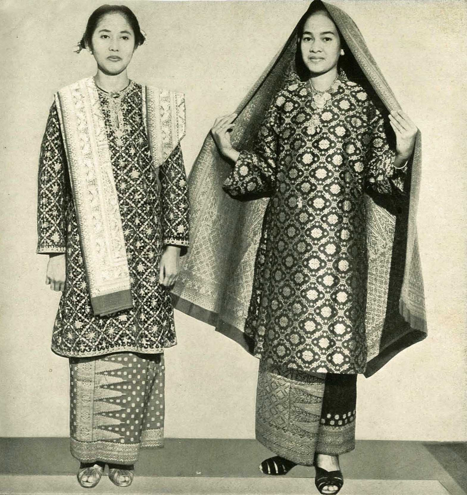 Women from Palembang in Ikat weave